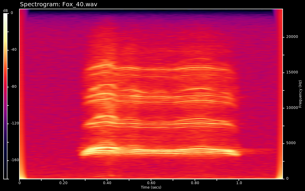 Fox 40 sonagram